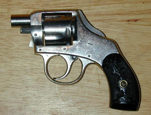 H&R Vest-Pocket Self-Cocker This image is hereby released into the Public Domain, for any and all uses